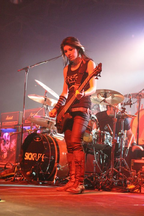 Sick Puppies bassist Emma Anzai at the McElroy Auditorium